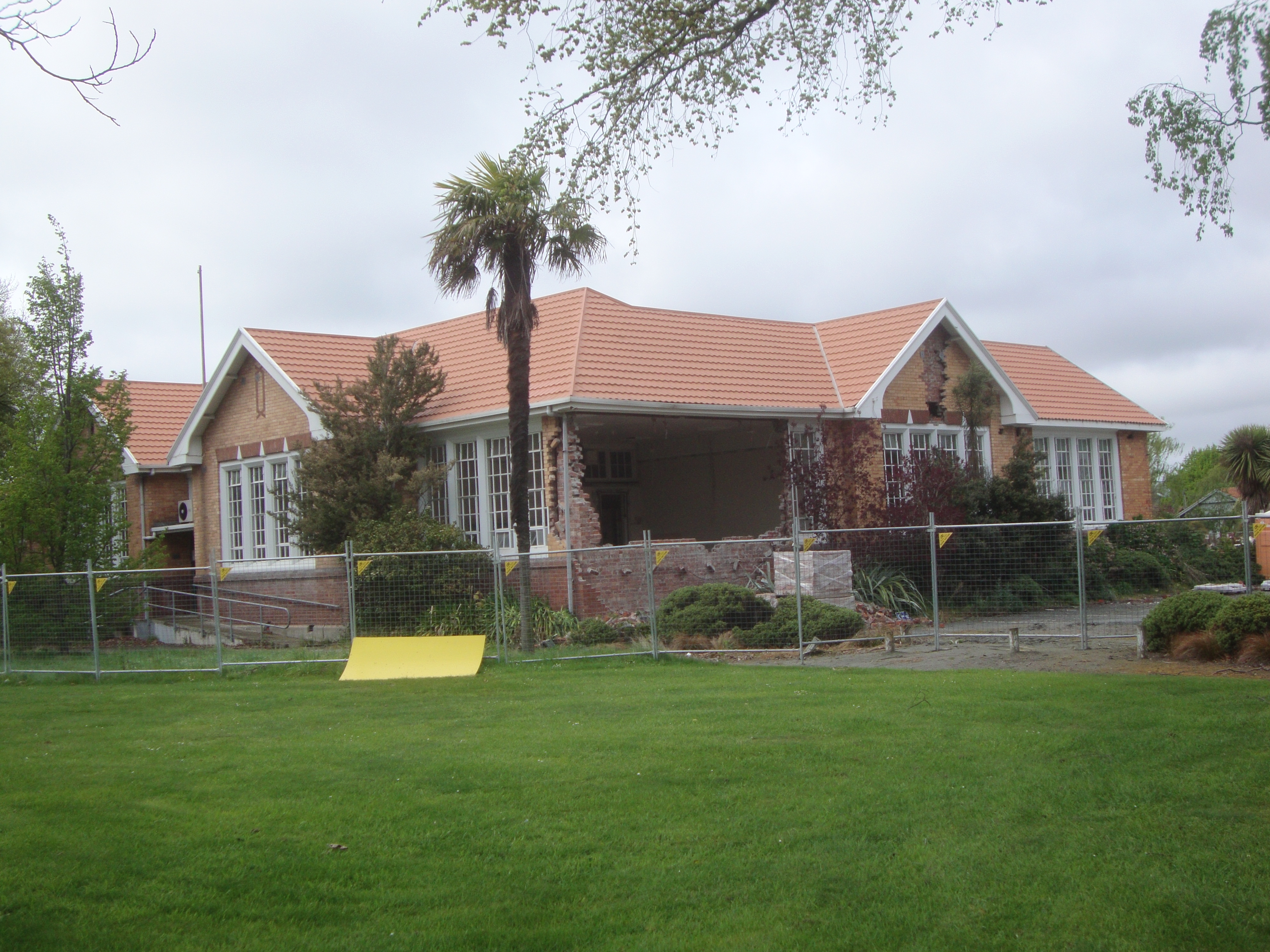 The Shirley Community Centre in October 2012